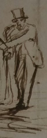 Hand drawn sketch of William Long of Harston, Cambridgeshire. Image is labelled "Mr Long" (among other named skaters) and (on the reverse) "scene on Mr Bowley's flooded meadows January 1860". Probably drawn by William Long's daughter "Caro". Another daughter, Henrietta Long (1836-1869) married John Langhorne (1836 – December 1911), headmaster of The King's School, Rochester. Their children included Brigadier-General Harold Stephen Langhorne (1866-1932). William Long's older brother was Hanslip Long (died 1873, married Martha Kent). Image from Langhorne family papers